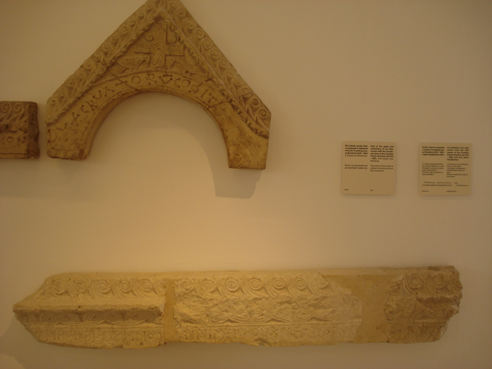 Prince/Duke Branimir of Croatia archaeological museum exhibits in Zadar, CroatiaHrvatski: Muzejski izlošci o hrvatskom knezu Branimiru (Zadar, Hrvatska)